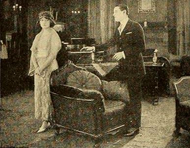 Still from the American film Upside Down (1919) with Anna Lehr and Taylor Holmes, on page 6 of the August 1919 Film Fun.